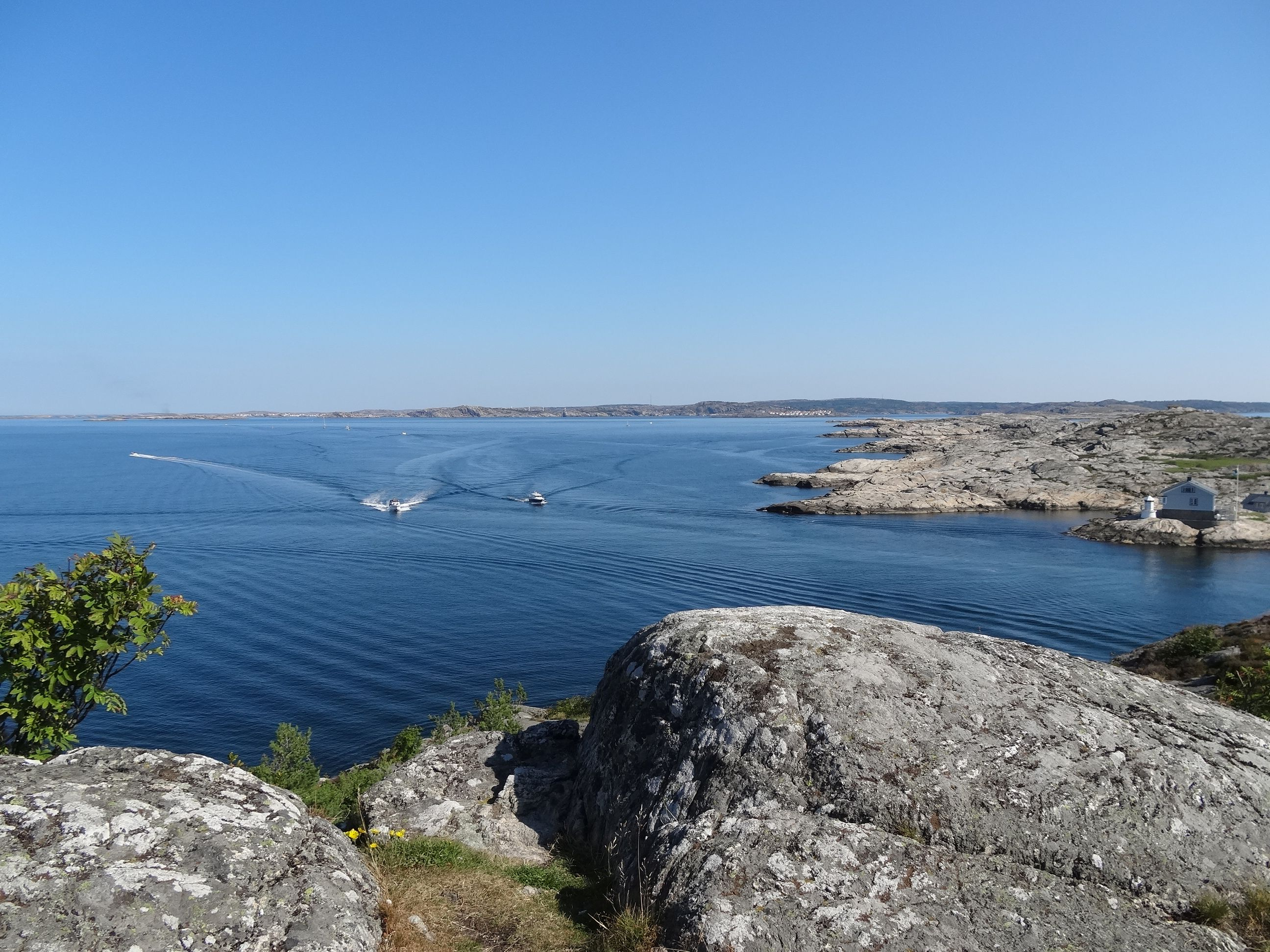 View from the early 18th-century gunbattery Antonetta at Marstrand, Sweden. To the right, at the far side of the Marstrand northern inlet is the island Koön, and at the horizon is the southern part of Tjörn.